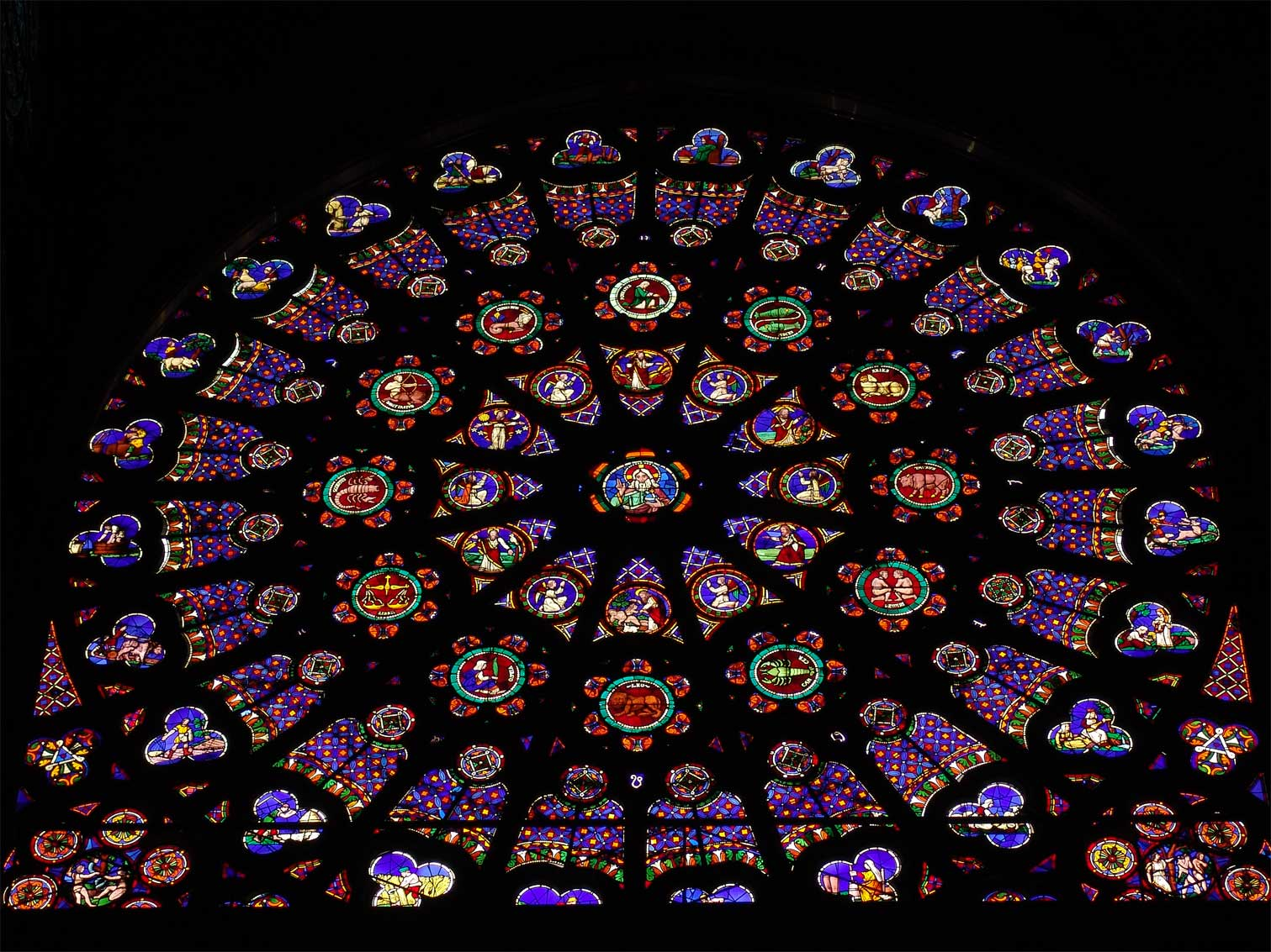 Rose window on north end of transpet arm, St. Denis Cathedral, St. Denis, France.